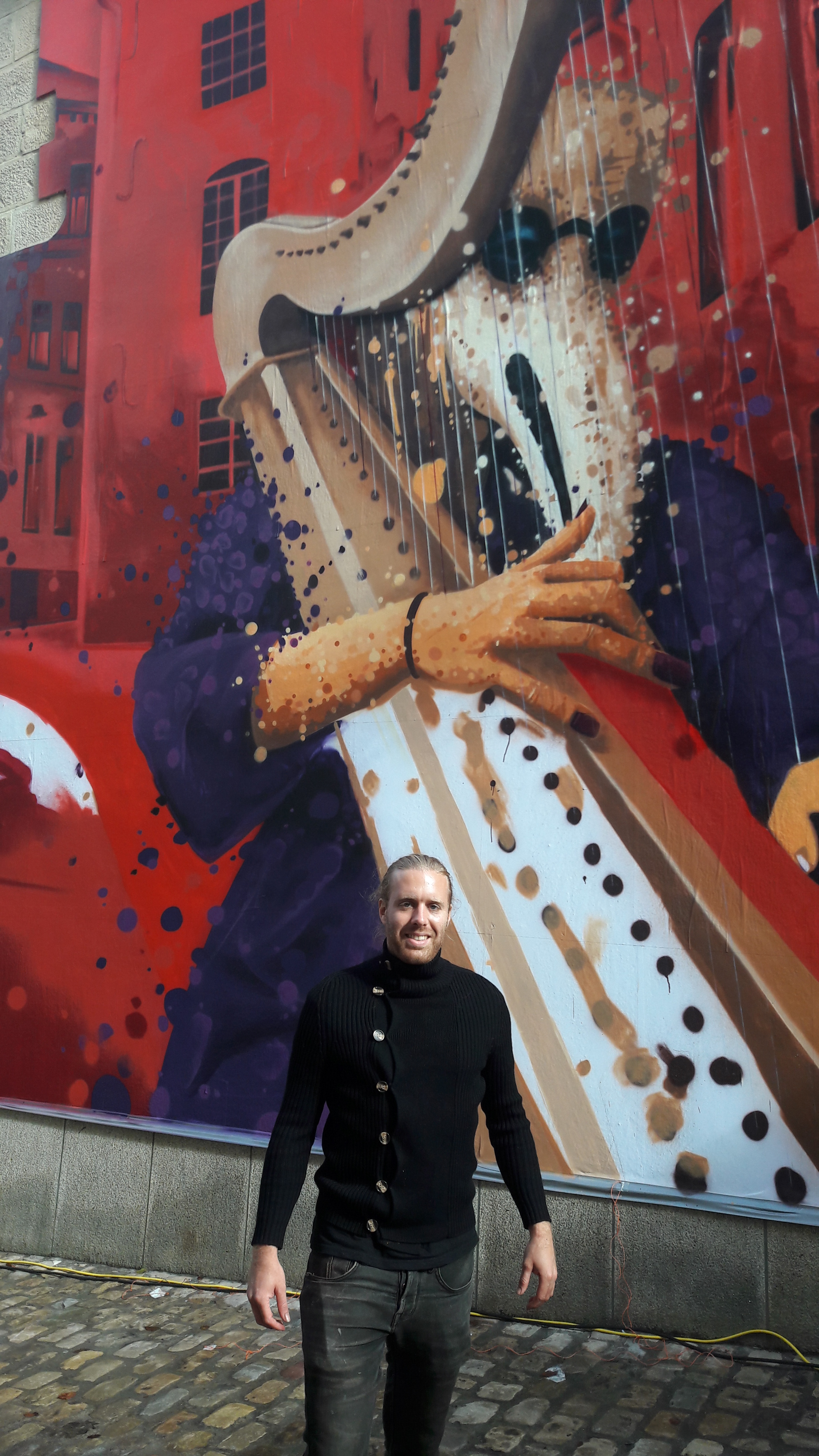 The artist Raphael Gindt in front of his Urban Art Paste Up in Luxembourg-City, rue du Saint Esprit with the title "Myths and Legends from the rue du Saint Esprit". The Paste Up is on the facade of the Luxembourg City Museum, September 2019